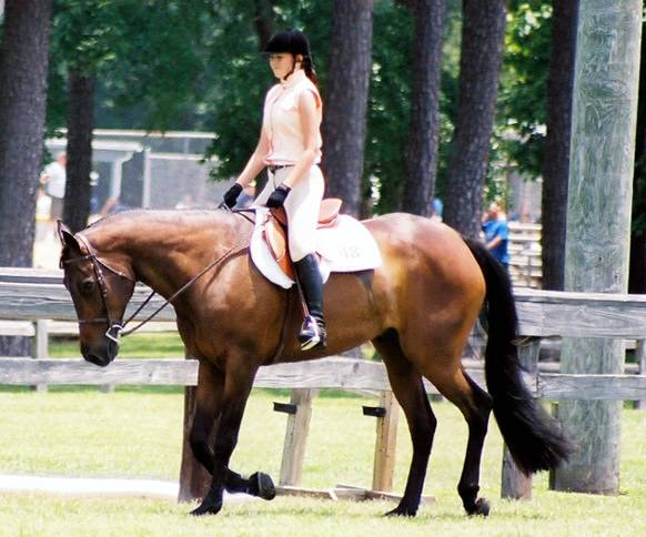 Bay Quarter horse in English show tack.